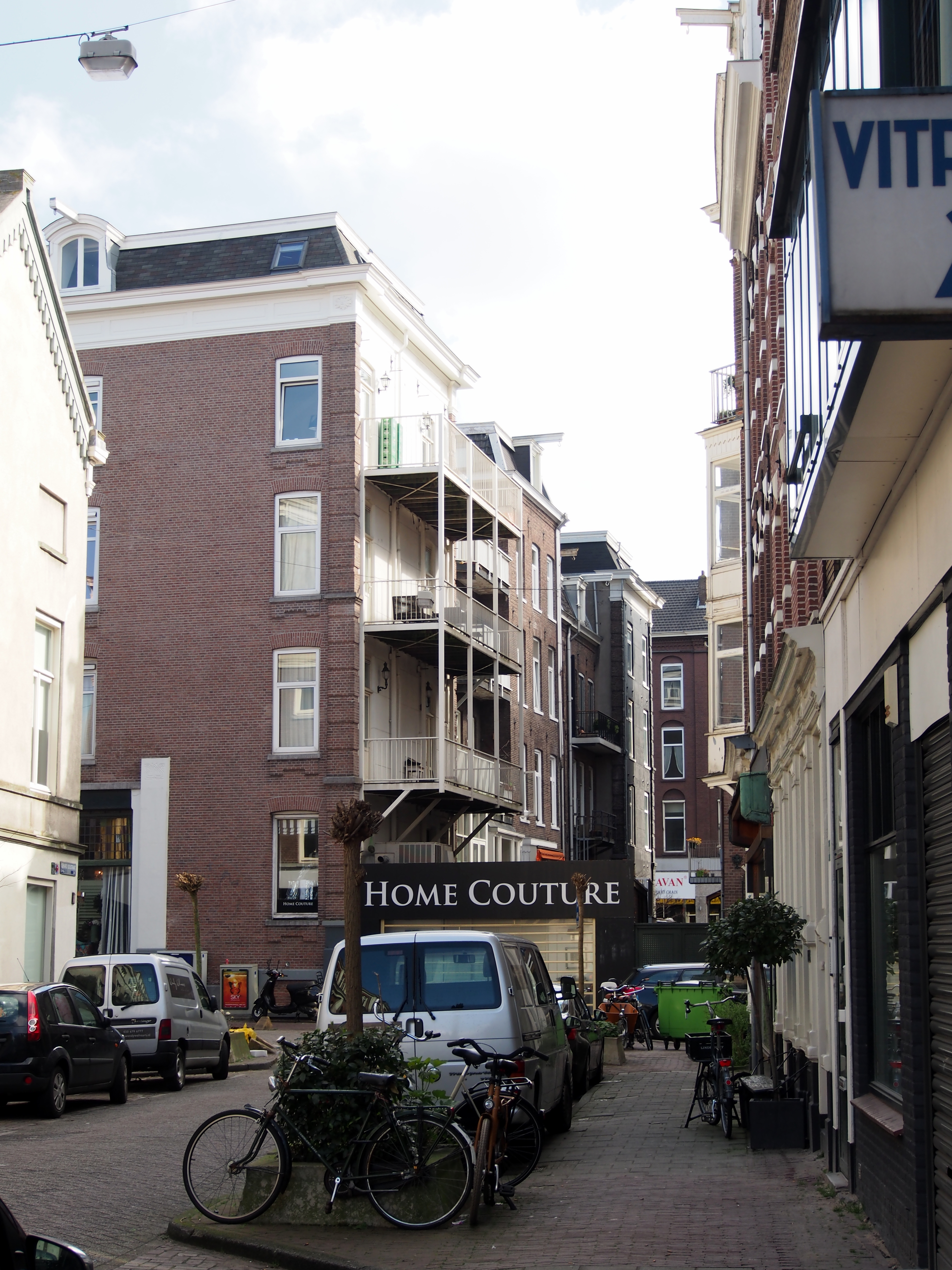 Gerard Doustraat richting Van Woustraat